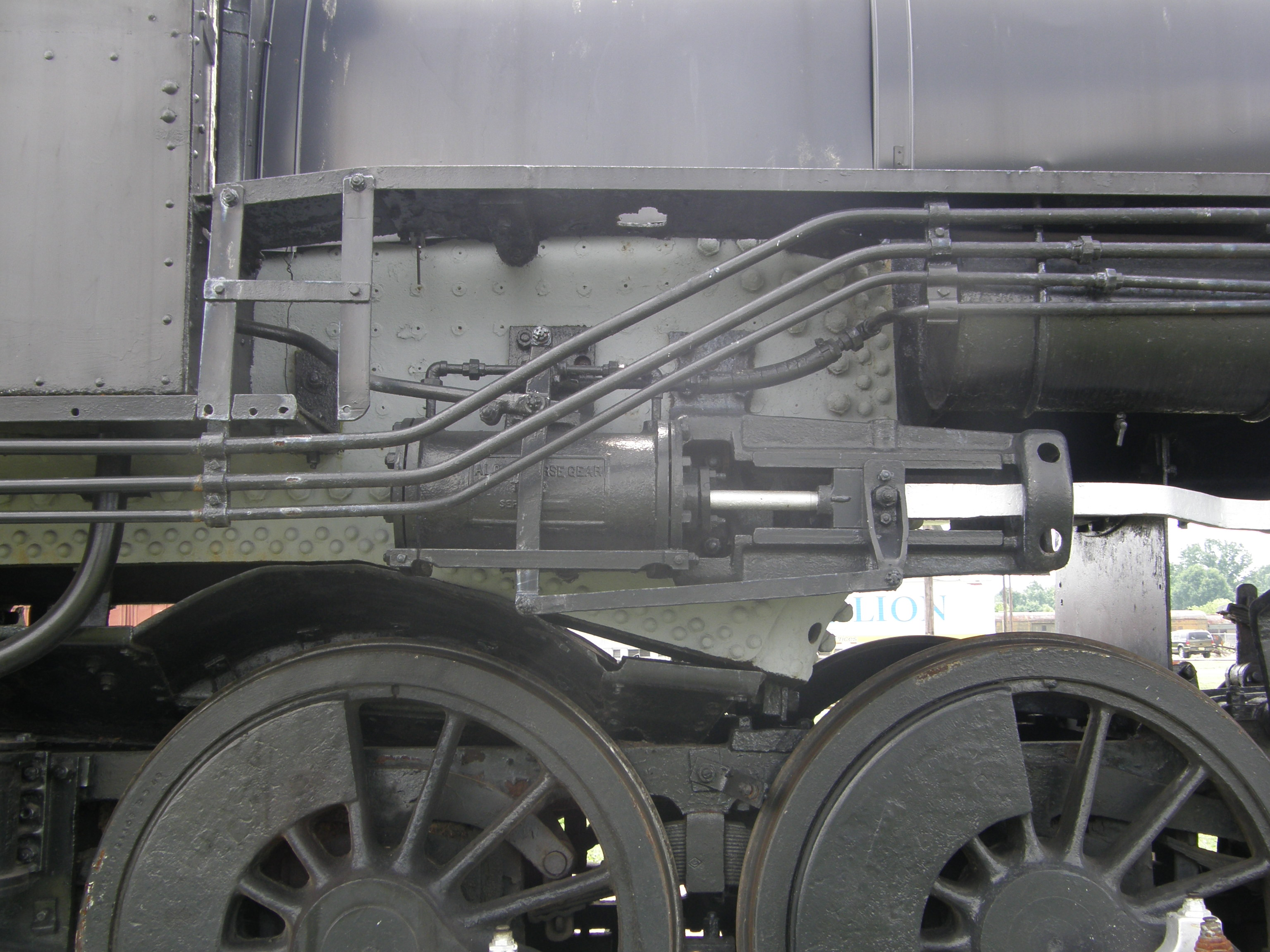 Power reverser on Southern Railway #542, the only survivor of the "J" class 2-8-0